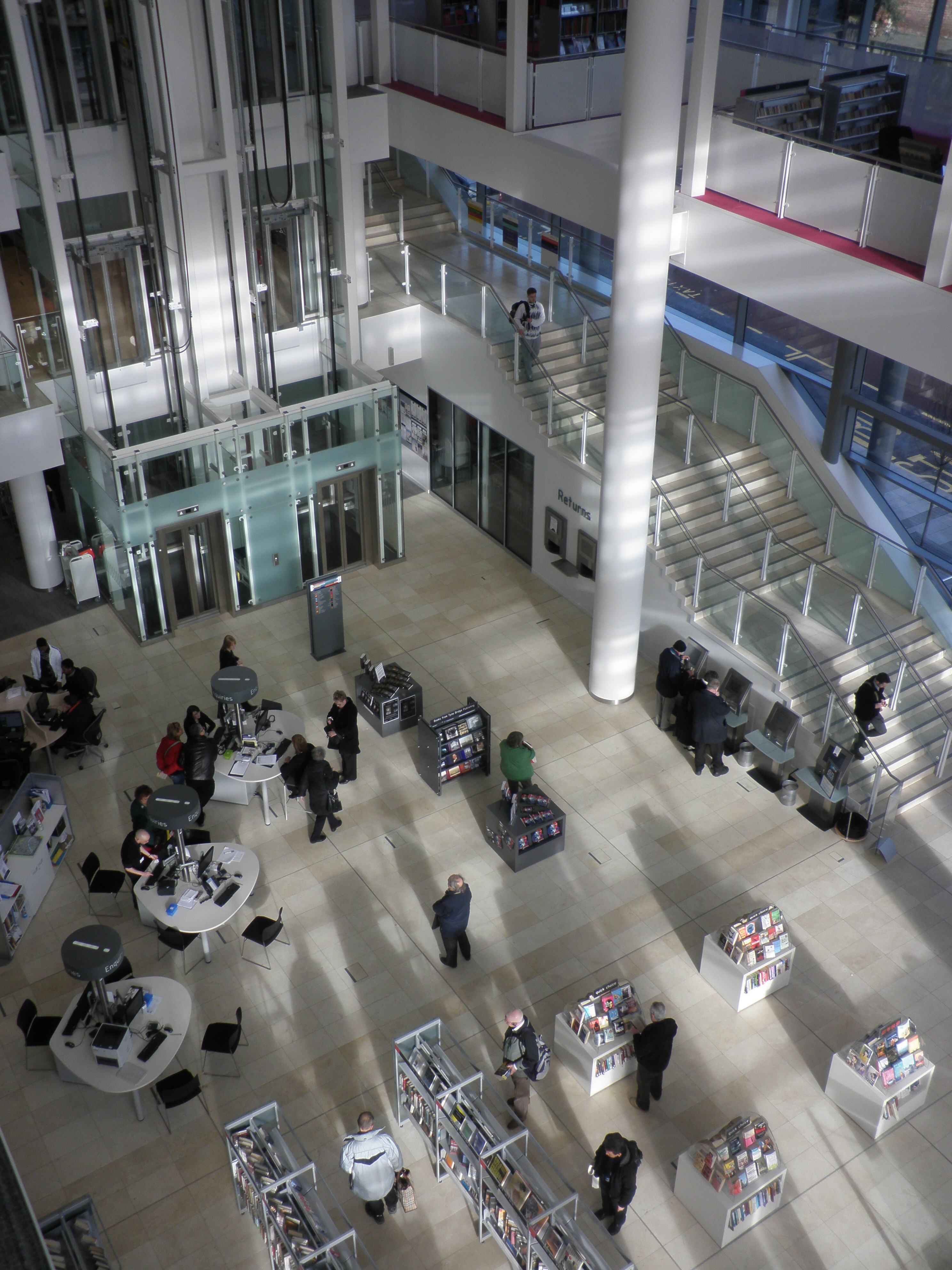 The atrium, Newcastle central library Following the recent rebuild.